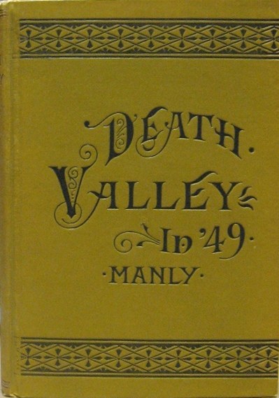 MANLY, William Lewis (1820-1903). Death Valley in ’49. Important Chapter of California Pioneer History. The Autobiography of a Pioneer, Detailing His Life from a Humble Home in the Green Mountains to the Gold Mines of California; and Particularly Reciting the Sufferings of the Band of Men, Women, and Children Who Gave “Death Valley” Its Name. San Jose: Pacific Tree and Vine Co., 1894.